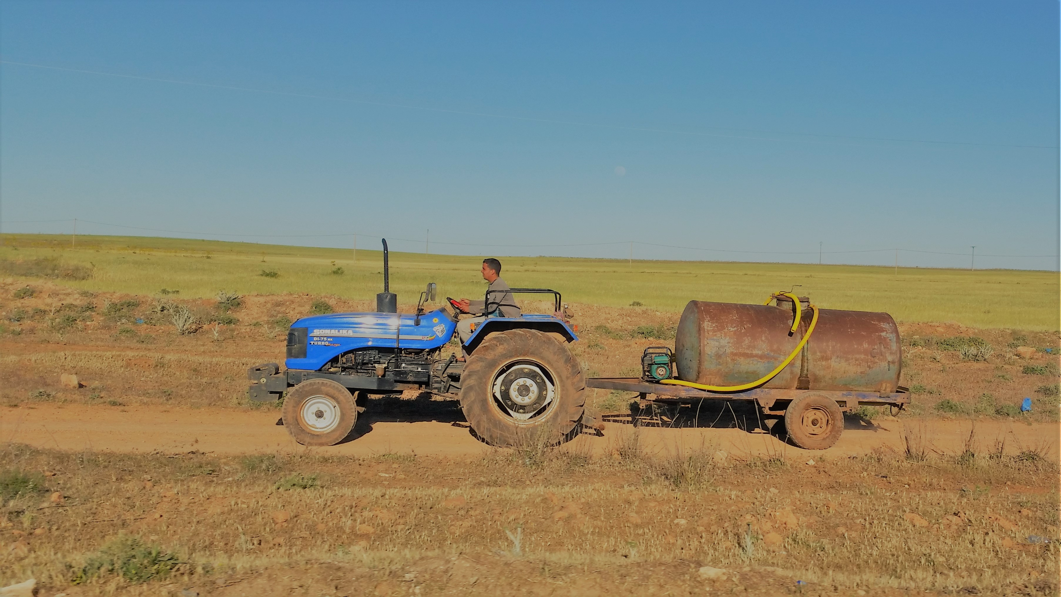 This is an image with the theme "Africa on the Move or Transport" from: Algeria